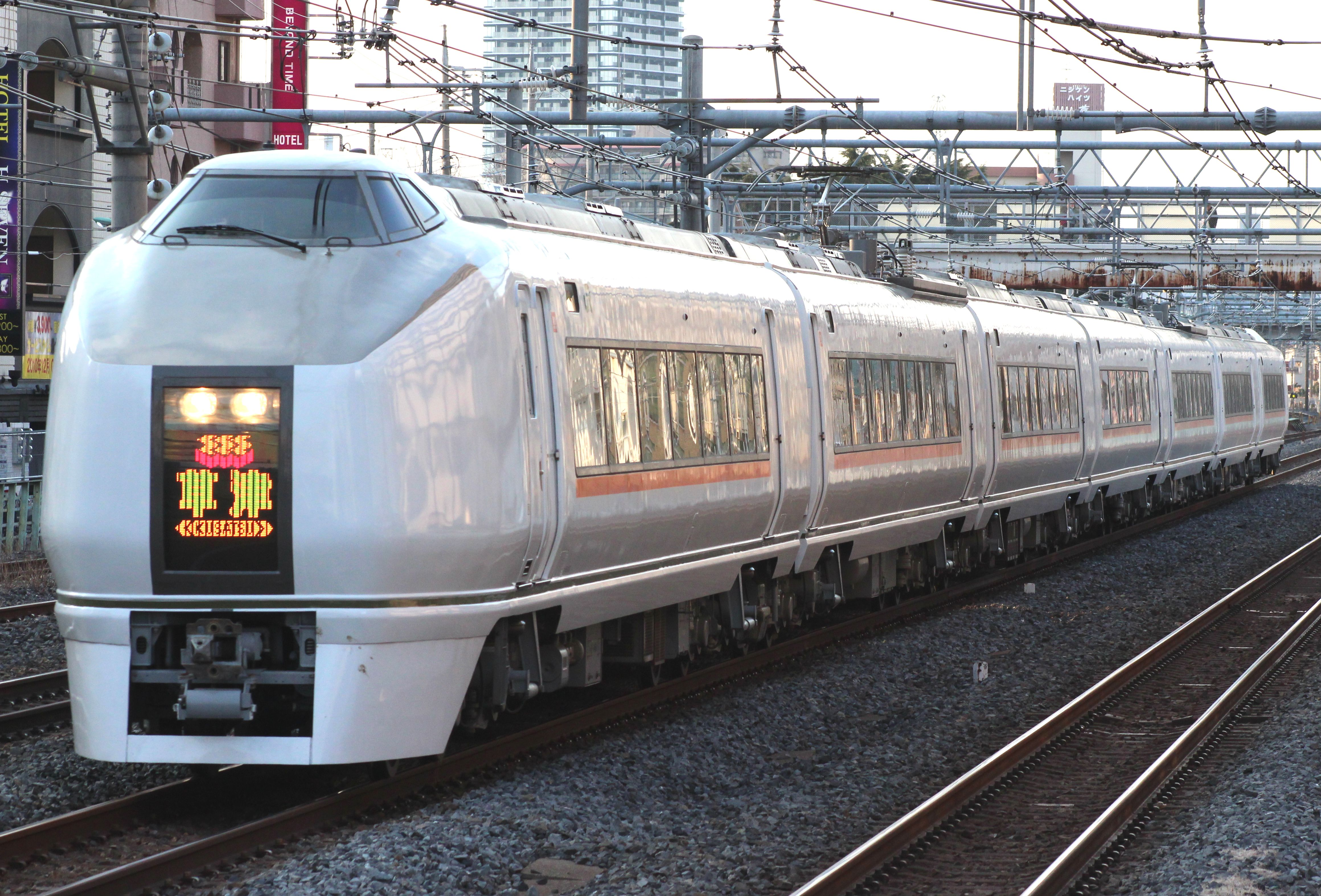 A JR East 651-1000 series EMU on a Kusatsu limited express service